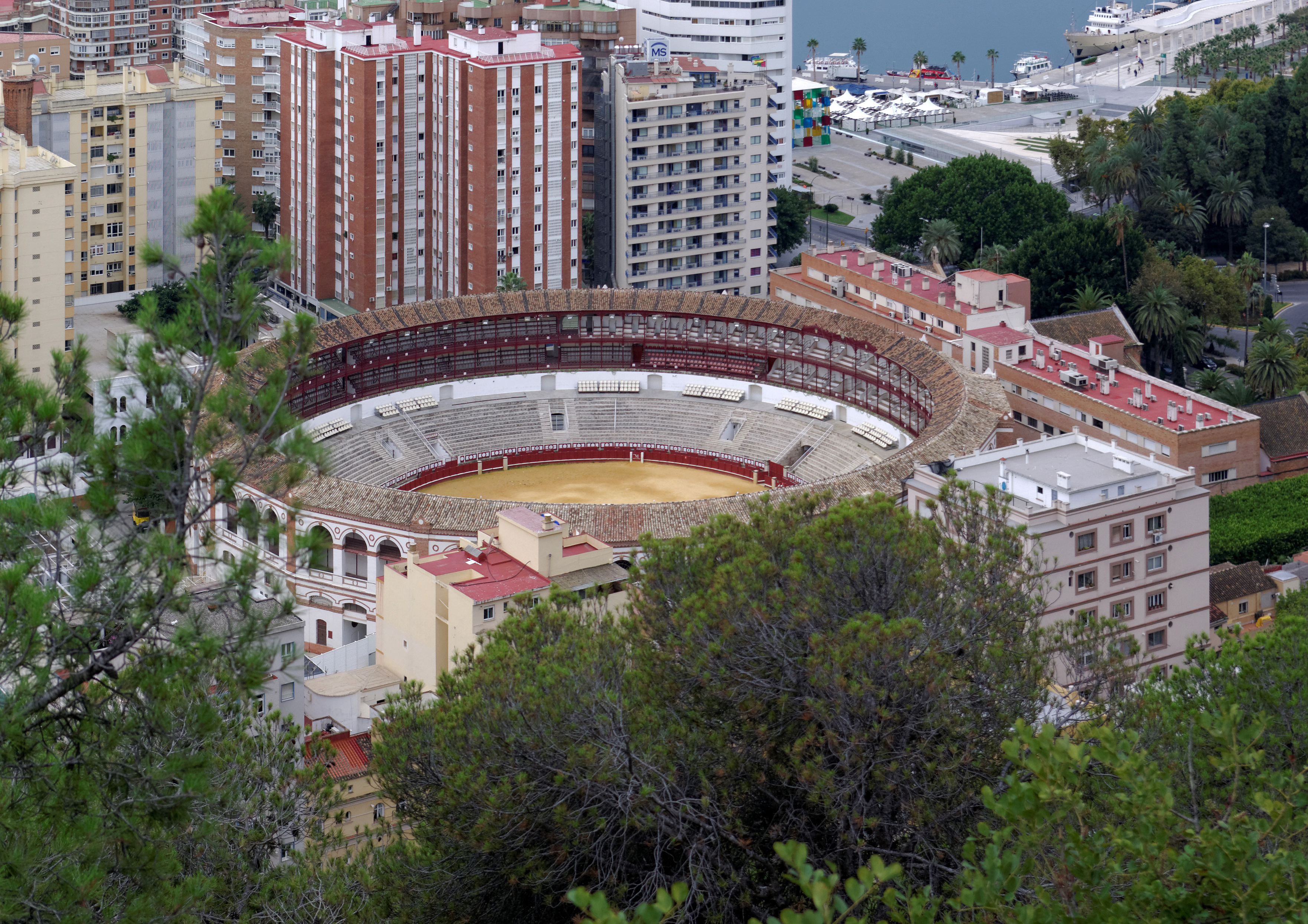 Spain, Malaga, bull fight arena from viewpoint near the Gibralfaro